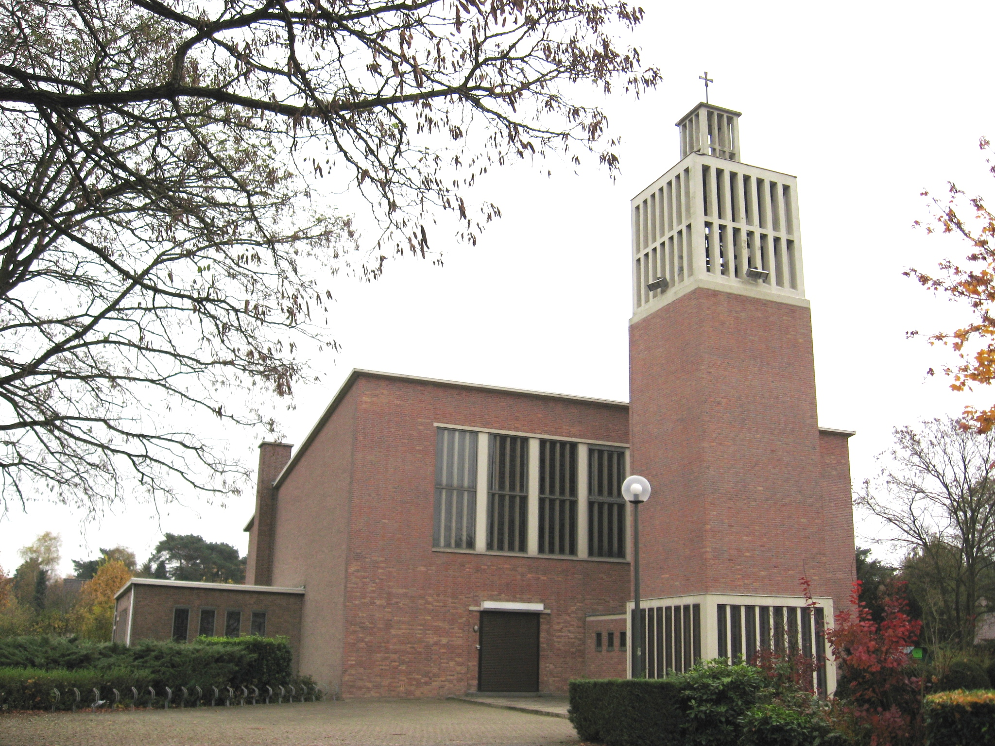 Church of the Holy Cross in Achel (Achel-Statie), Hamont-Achel, Limburg, Belgium